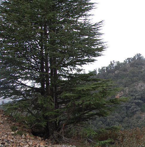 Cedrus libani var. atlantica (Atlas Cedar), native in Rif Mountains, between Meknes and Chaouen, Morocco.